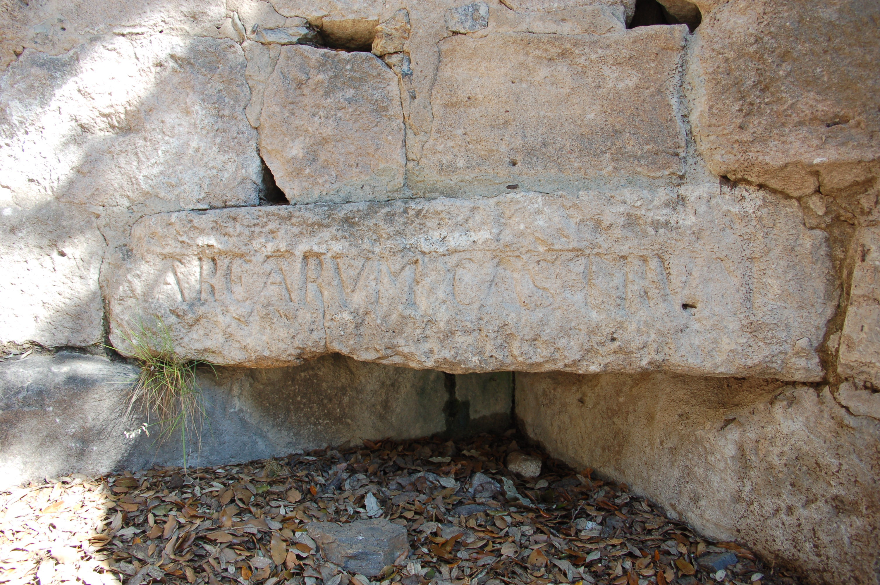 Currency Castle Hyeres, at the entrance of the castle.